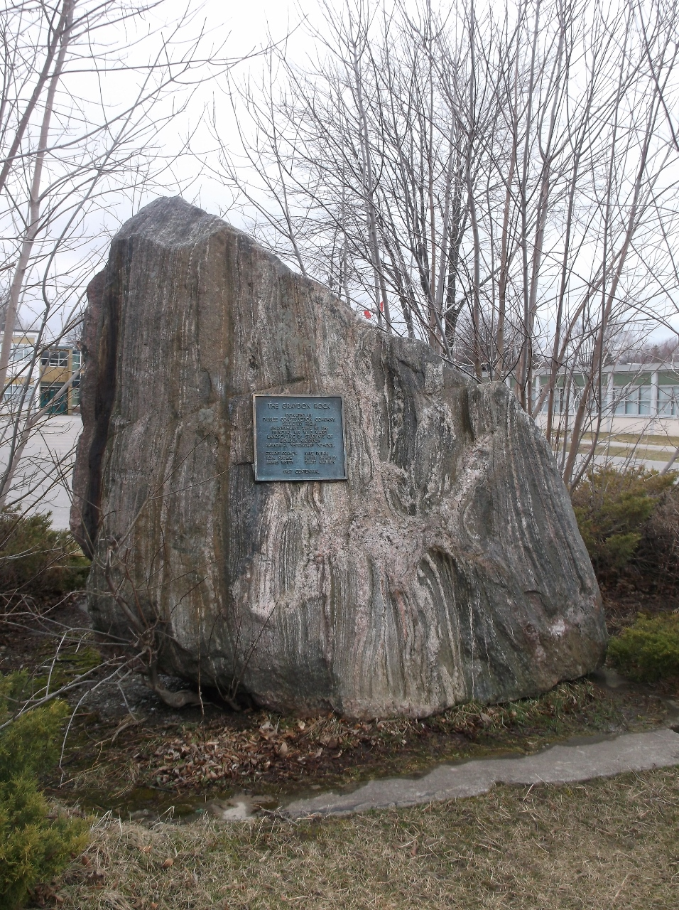 The Graydon Rock located at the northeast corner of Gordon Graydon Memorial Secondary School.